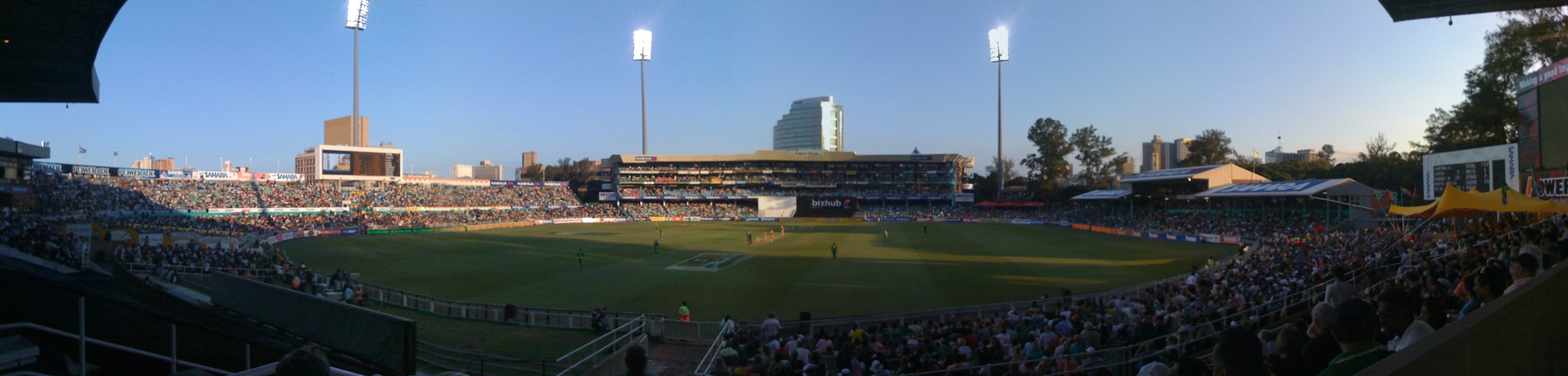 Made using Pano Software on the iPhone Kingsmead Stadium, Durban, South Africa 3 April 2009